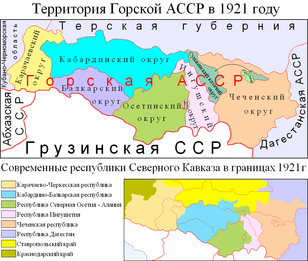 English - Map of Mountain ASSR (USSR) (Russian)